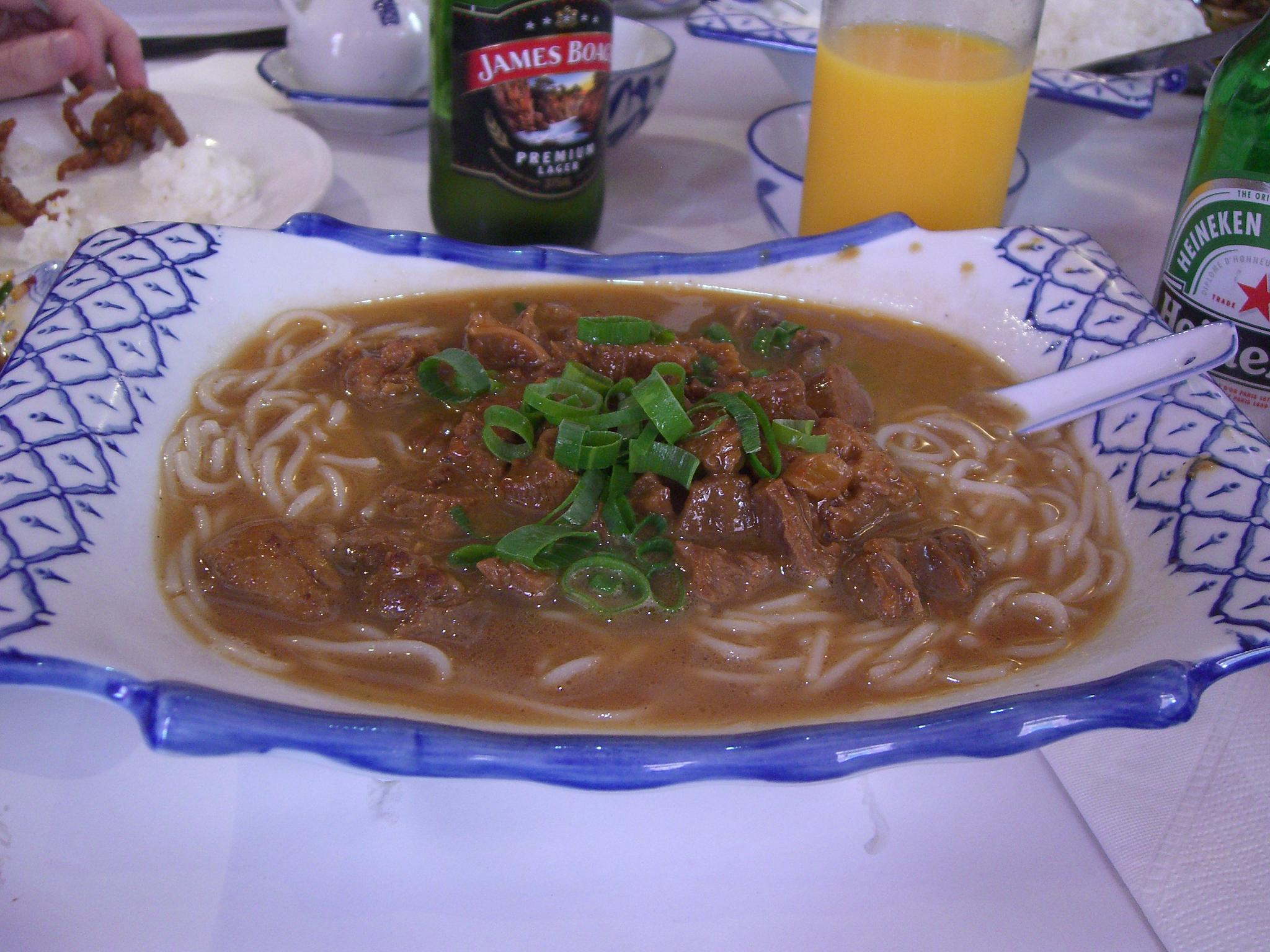 常德牛肉面 Changde Beef Noodle Soup - Post Mao Cafe AUD10.jpg Not bad, but because my nose was mostly clogged, all I can say is that it was salty :) This was the lighter rice noodles 米线 instead of flour noodles. Not very common around here, but very popular in China. 毛家菜 Post-Mao Cafe 03.9663.6003 113 Little Bourke St Melbourne VIC 3000